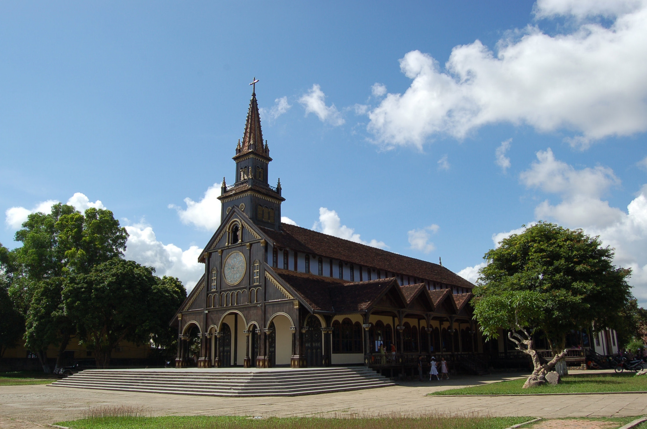 Kontum's French-built Catholic Wooden Church - ISO code VN-E-KT.